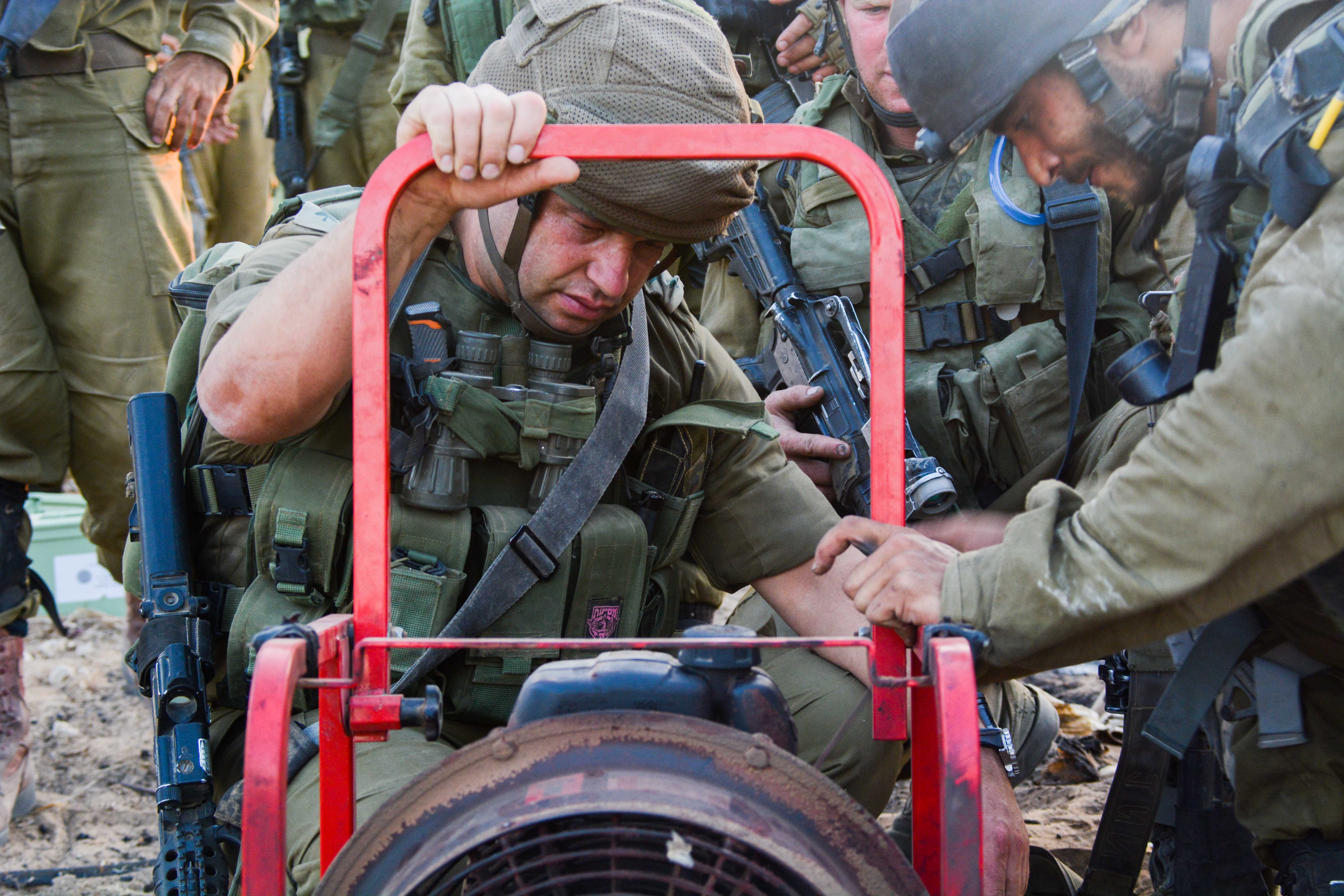 The IDF's paratroopers brigade operate within the Gaza Strip to find and disable Hamas' network terror tunnels and eliminate their threat to Israeli civilians.